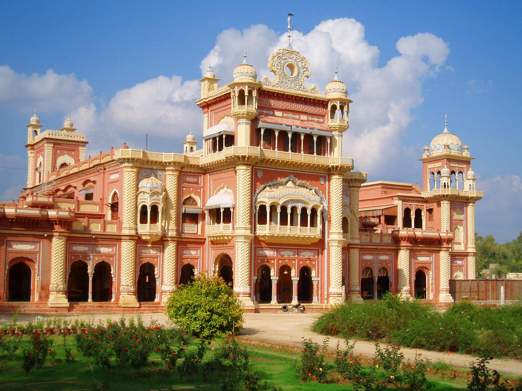 Faiz Mahal (Palace) سنڌي: 'فيض محل'